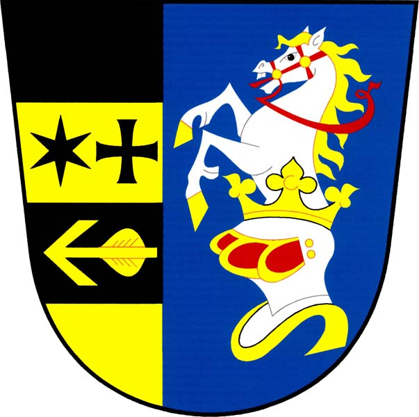 Coat of amrs of Smolotely , District Příbram, Czech Republic